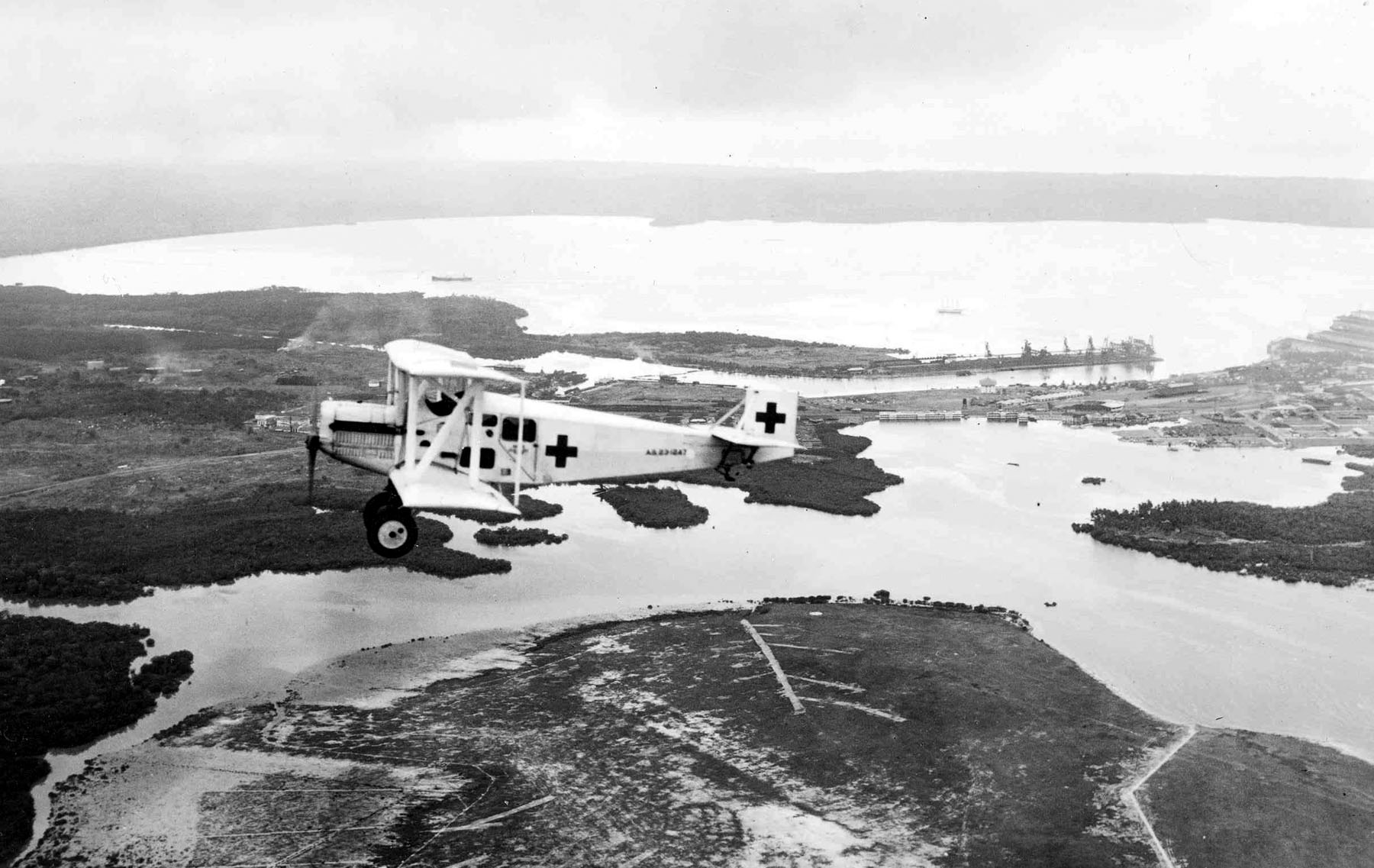 A Cox-Klemin XA-1 air ambulance biplane in flight over France Field in the Panama Canal Zone.